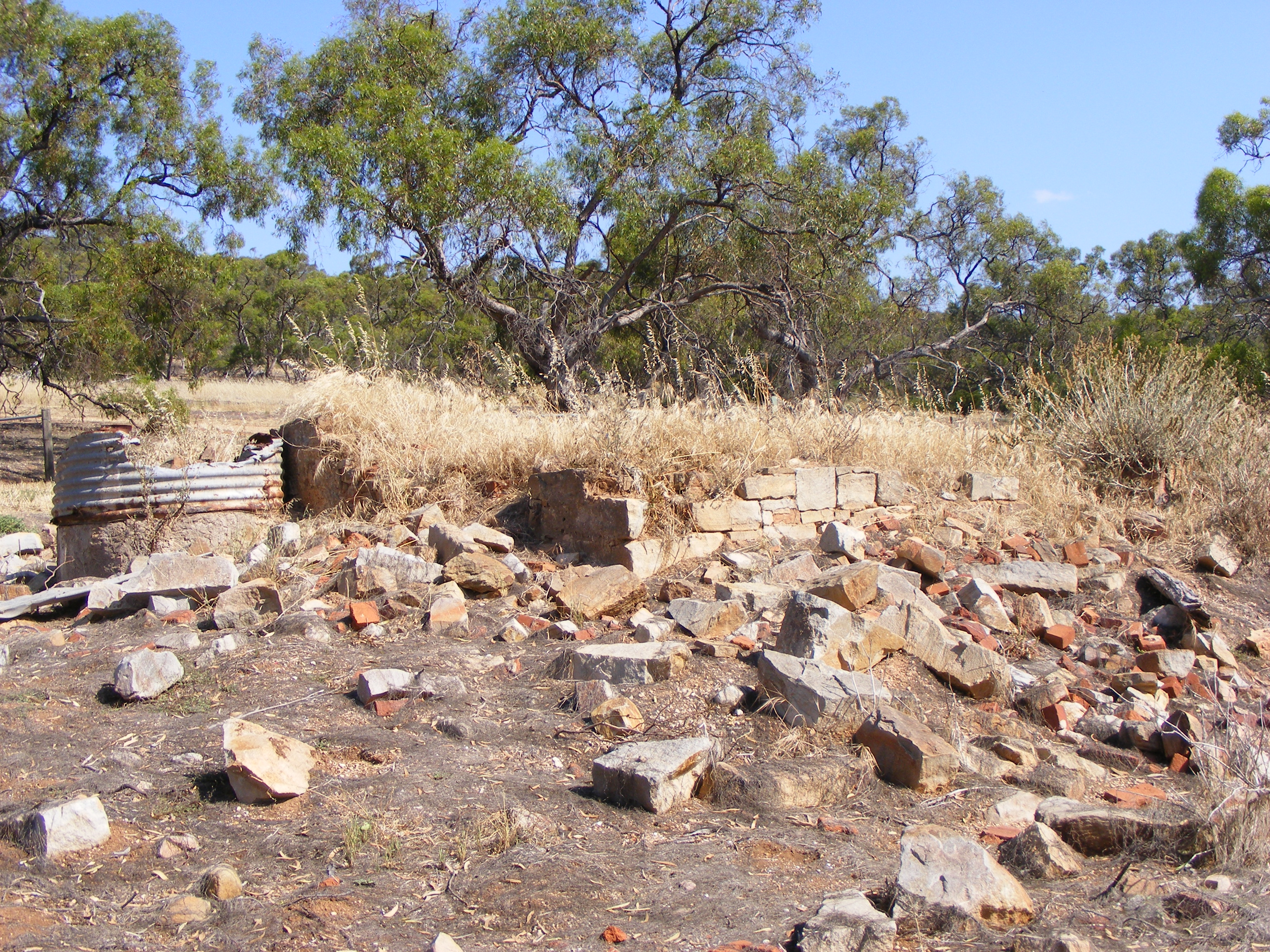 Trevalsa ruin in , Adelaide, South Australia. Former home of William Pedler